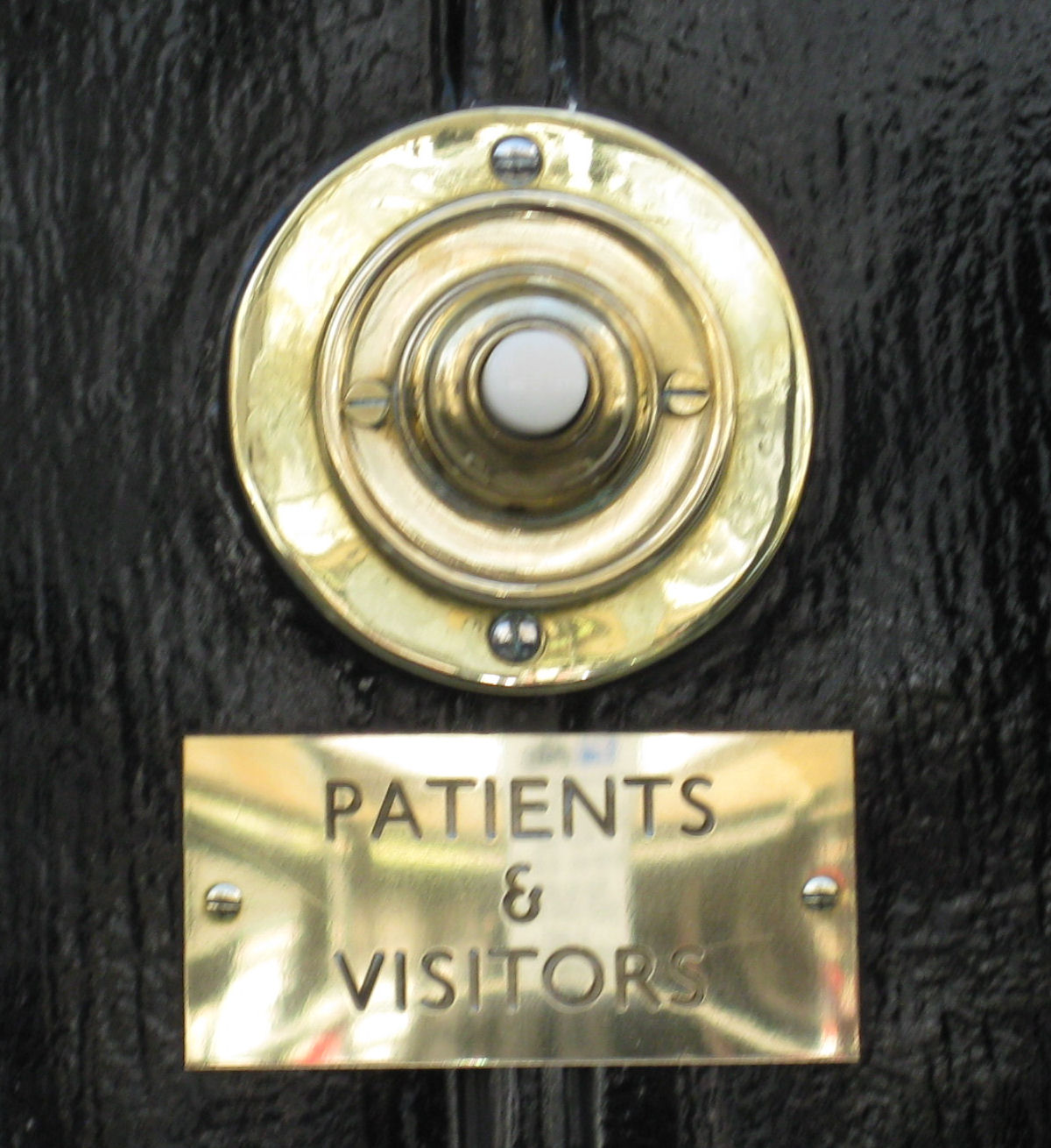 Doorbell on doctor's consulting rooms, Harley Street, London W1.